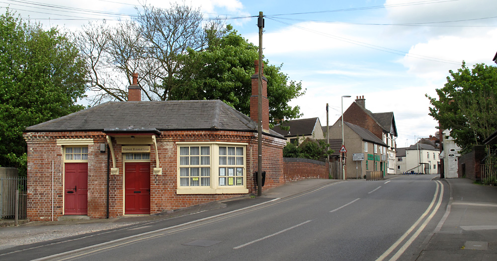 Whitwick station at street level. Originally built by the Charnwood Forest Railway and opened in 1883, it was owned successively by the LNWR (London and North Western Railway), LMS (London, Midland and Scottish Railway), and BR (British Railways). It is now used by the Whitwick Historical Group.